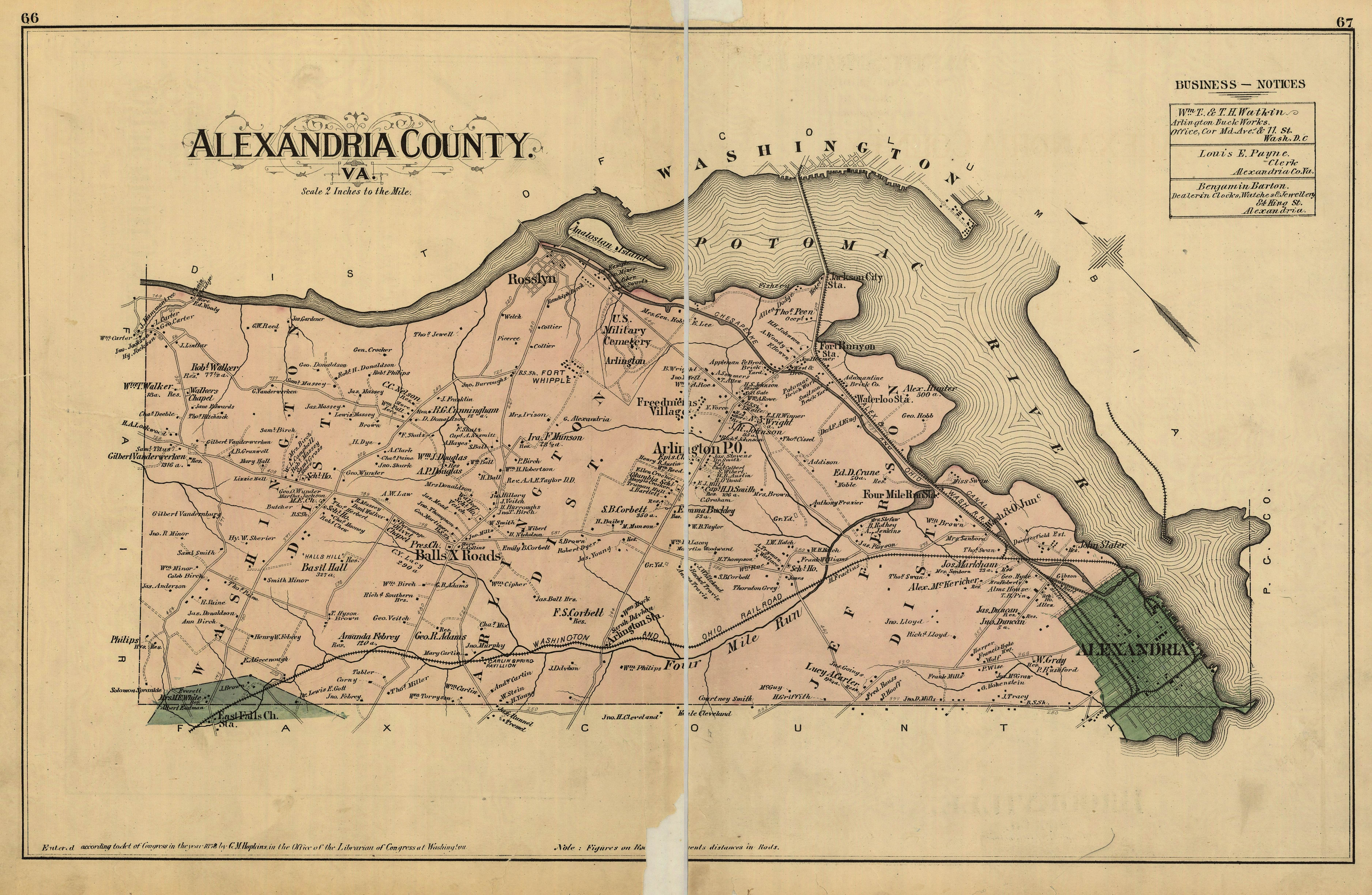 Hopkins map of Alexandria County, Virginia: Includes the present Arlington County and City of Alexandria.